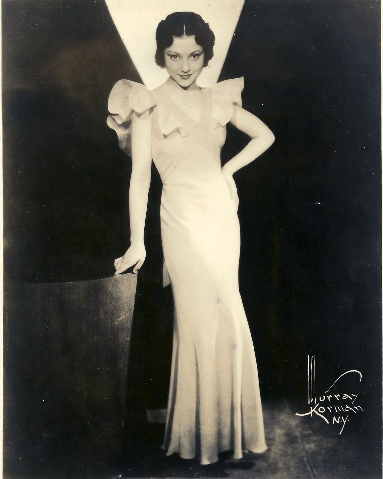 Miriam Battista at approximately age 20, photographed by Murray Korman